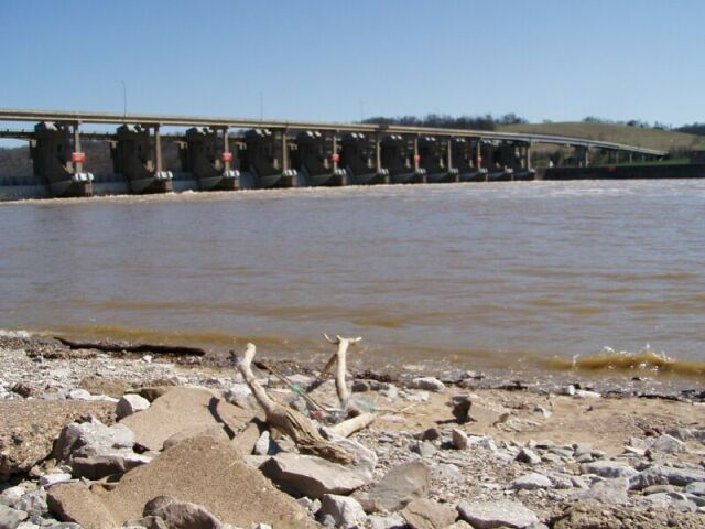 Markland Dam, gates